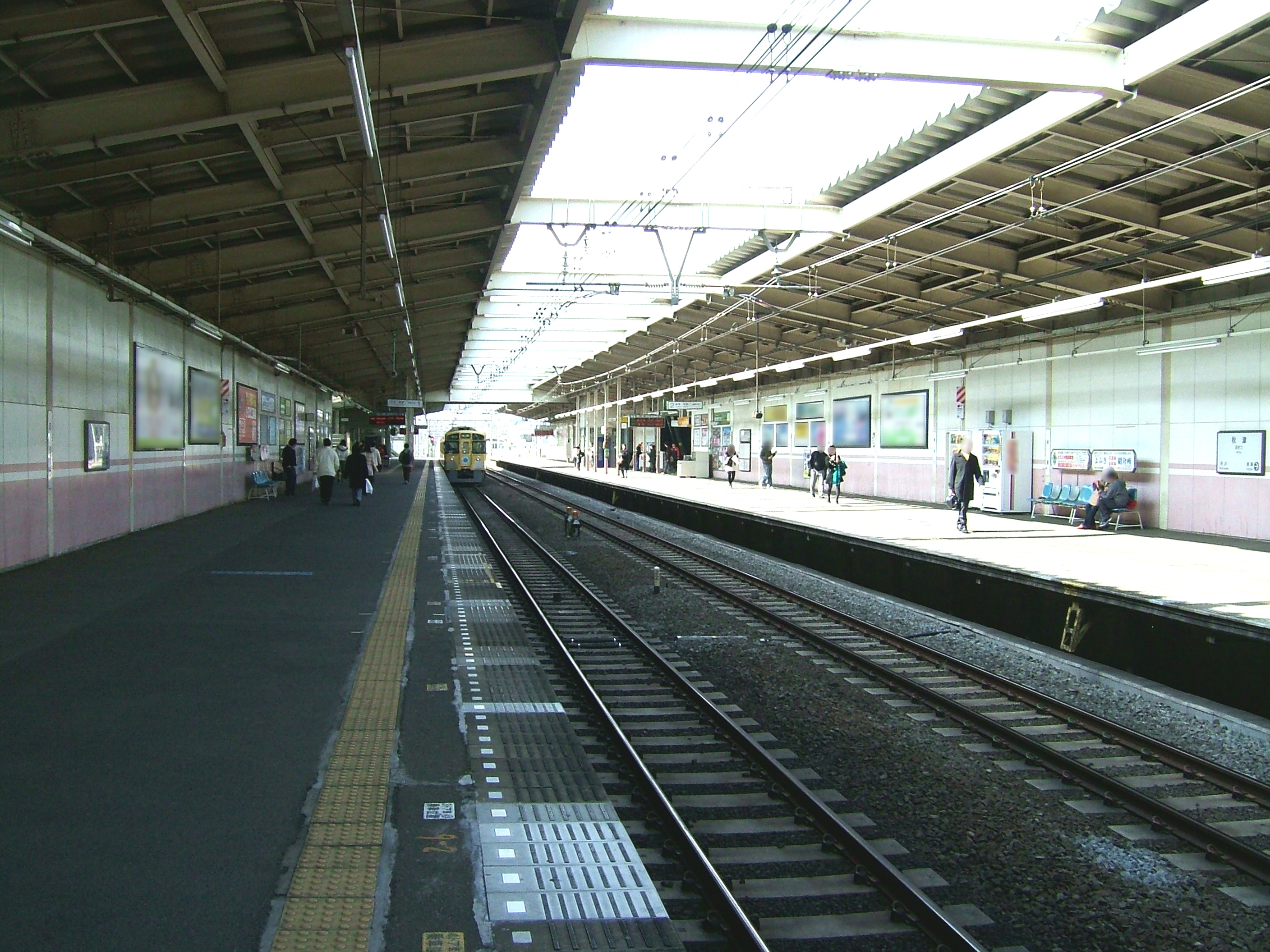 Akitsu Station platform (Seibu Ikebukuro Line)